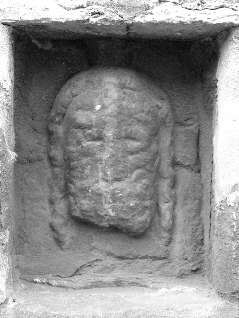 Braunschweig, Germany: St. Michael’s: Head of Christ, 12th century.